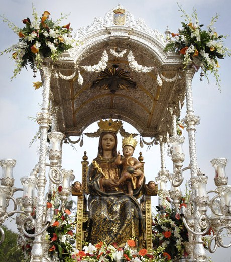 Virgin of the Bella in her templete, in the way to her hermitage